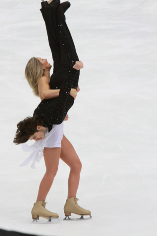 Sinead KERR and John KERR at the 2009 NHK Trophy.